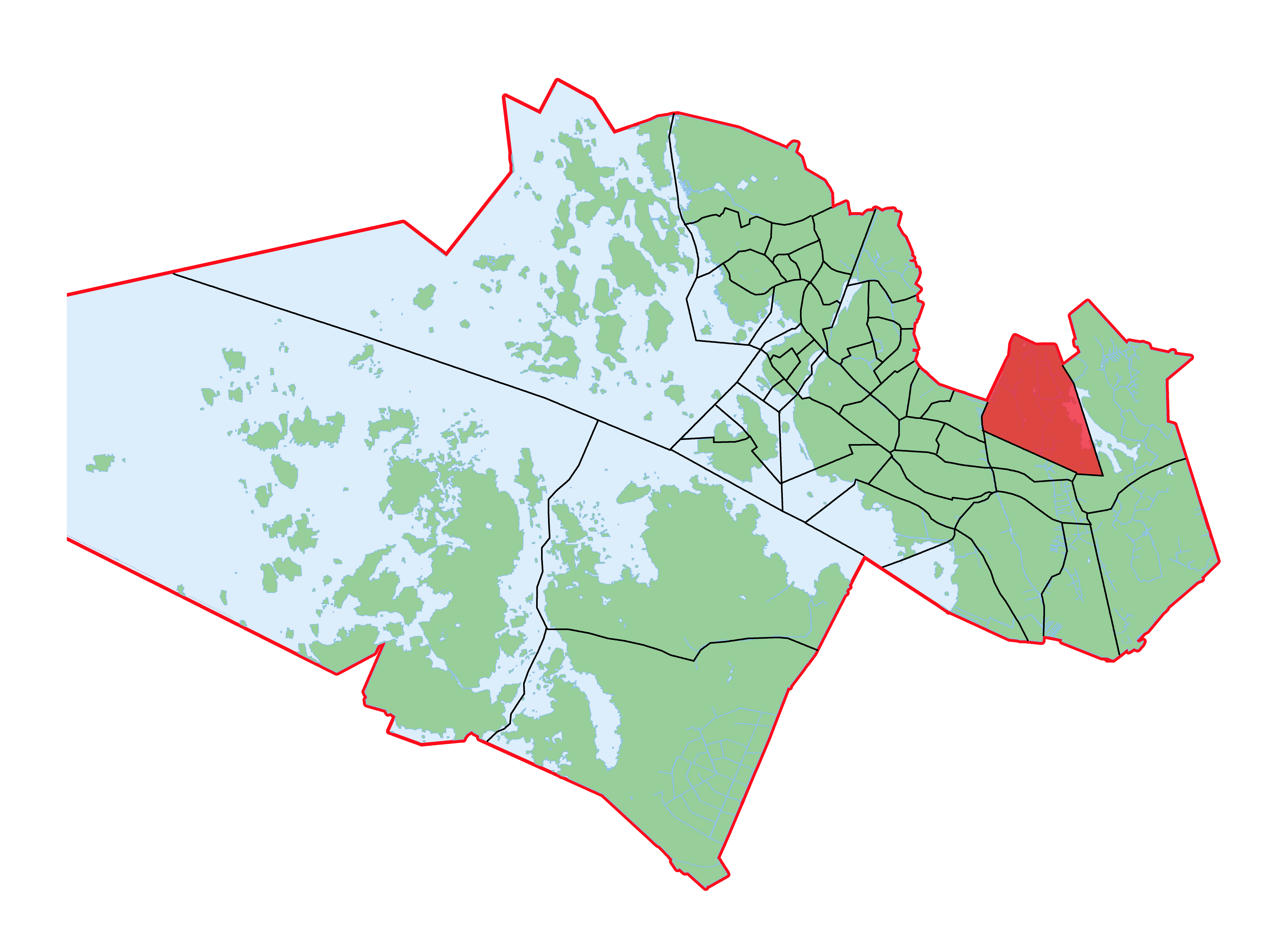 Ristinummi, Vaasa